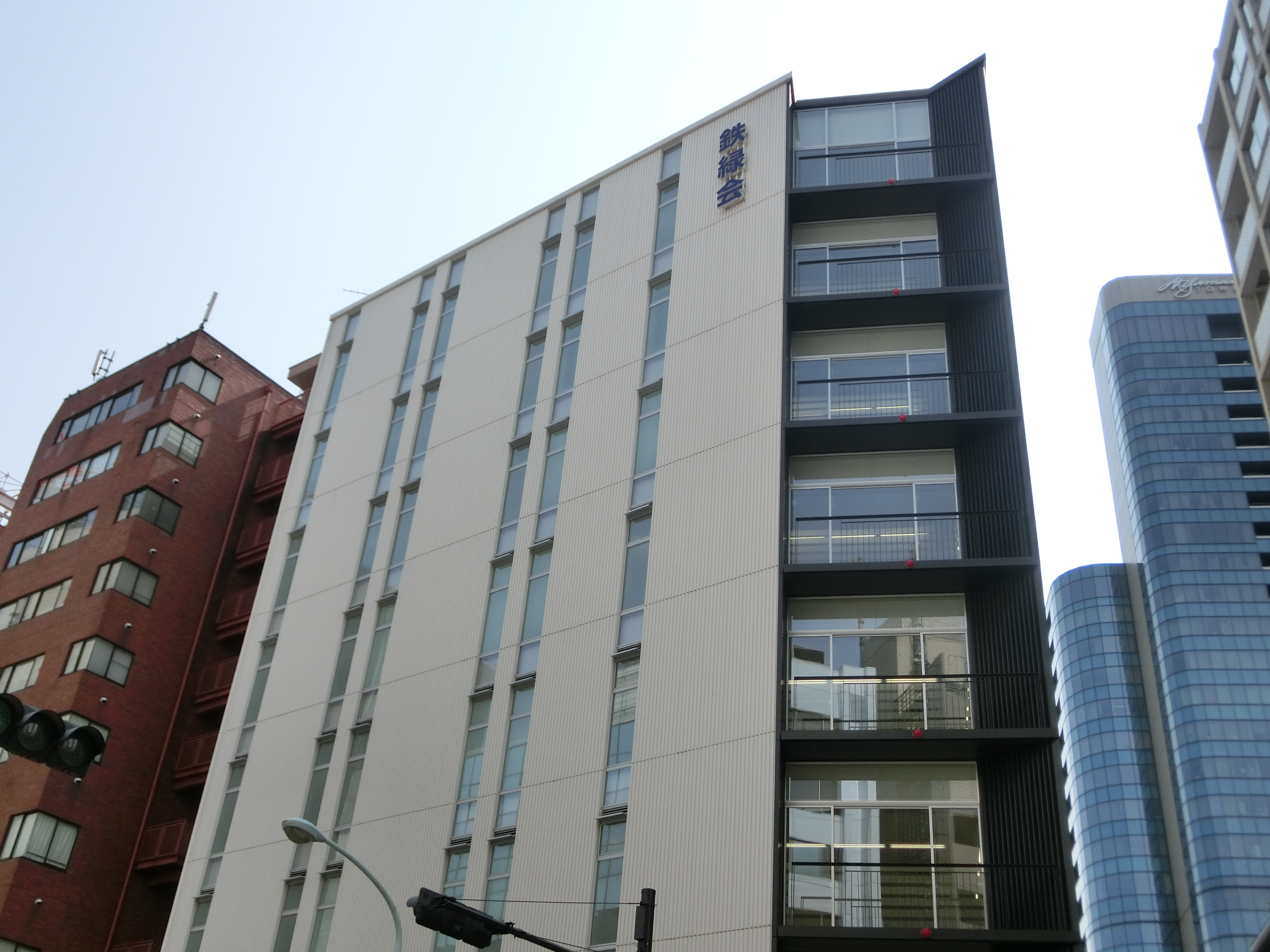 Tetsuryokukai Headquarters